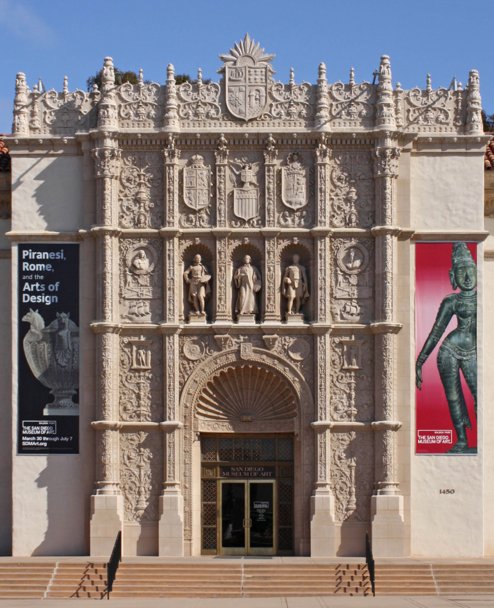 Facade of the San Diego Museum of Art in Balboa Park, San Diego, California